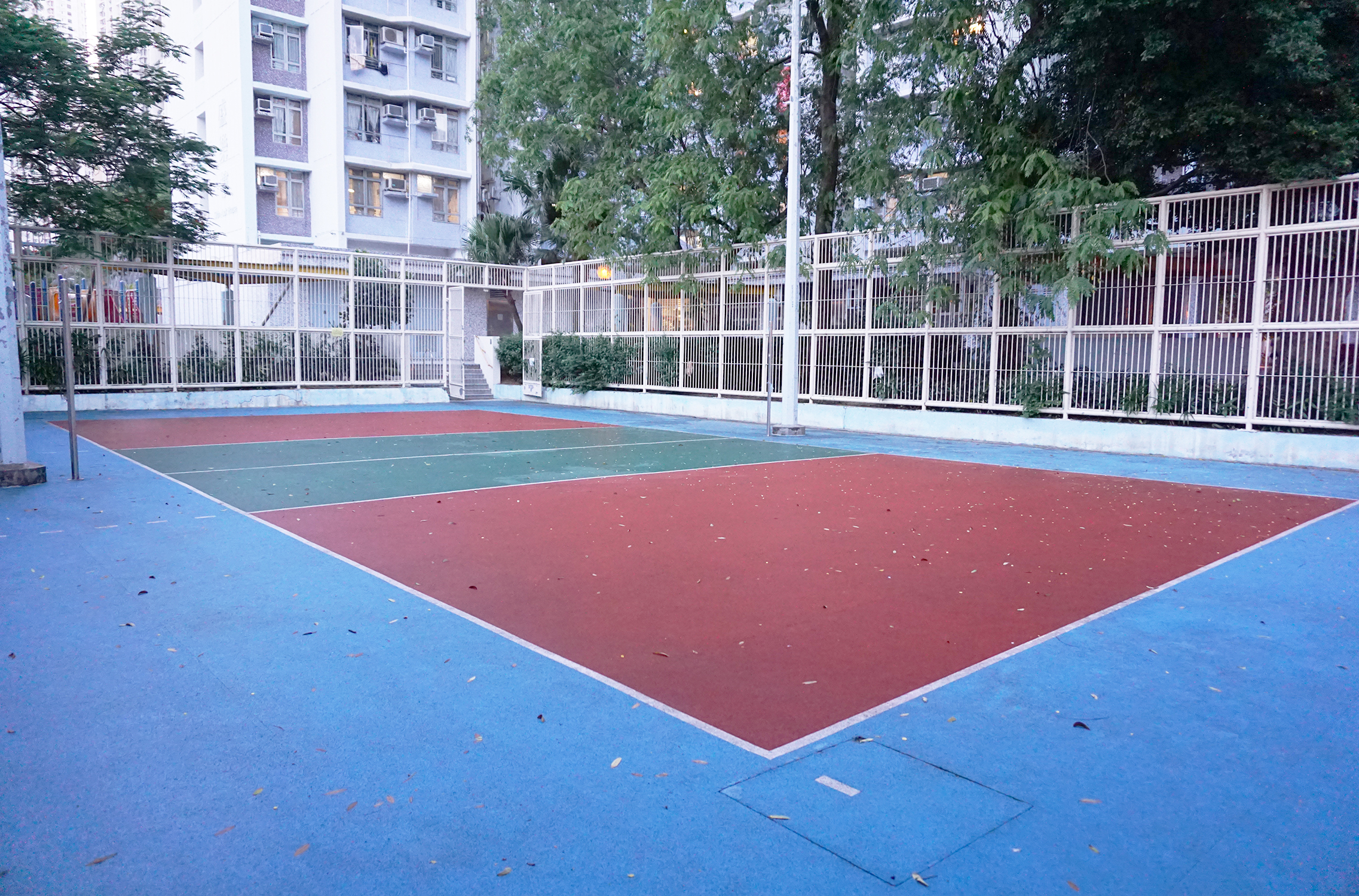 Kwai Shing East Estate in Kwai Shing, Hong Kong.